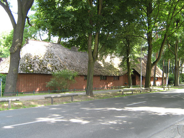 Walter Felsenstein estate "Marienhof" Karl-Liebknecht-Strasse 142–147, Glienicke/Nordbahn, Brandenburg, Germany